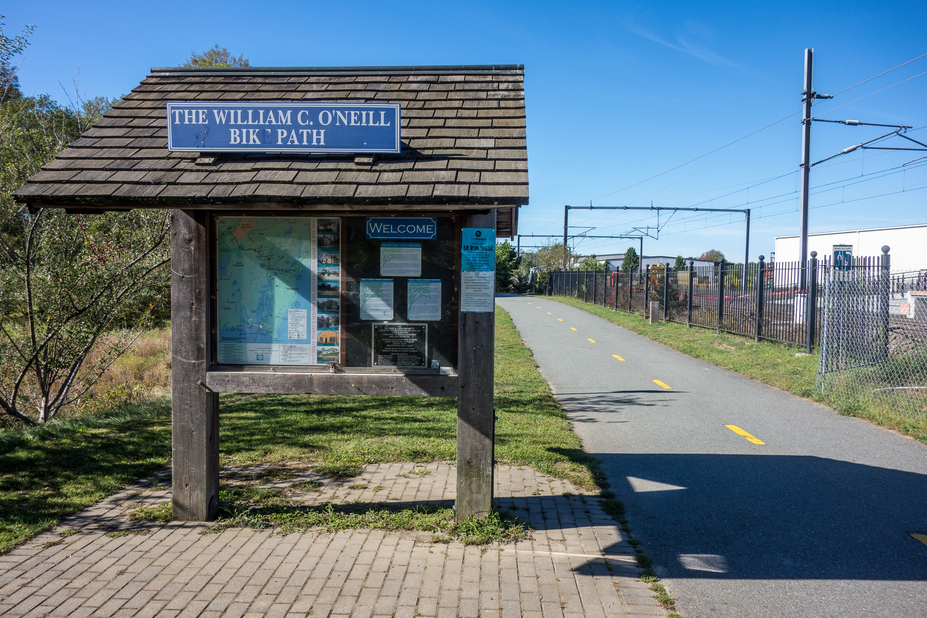 Northern terminus of the William C. O'Neill Bike Path (aka South County Bike Path) near the Kingstown Amtrak station, Kingstown, Rhode Island.